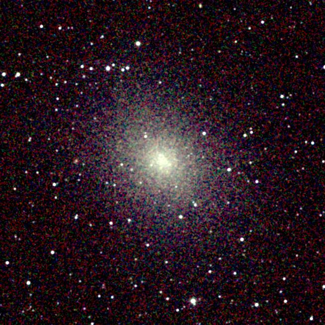 Galaxy NGC 185